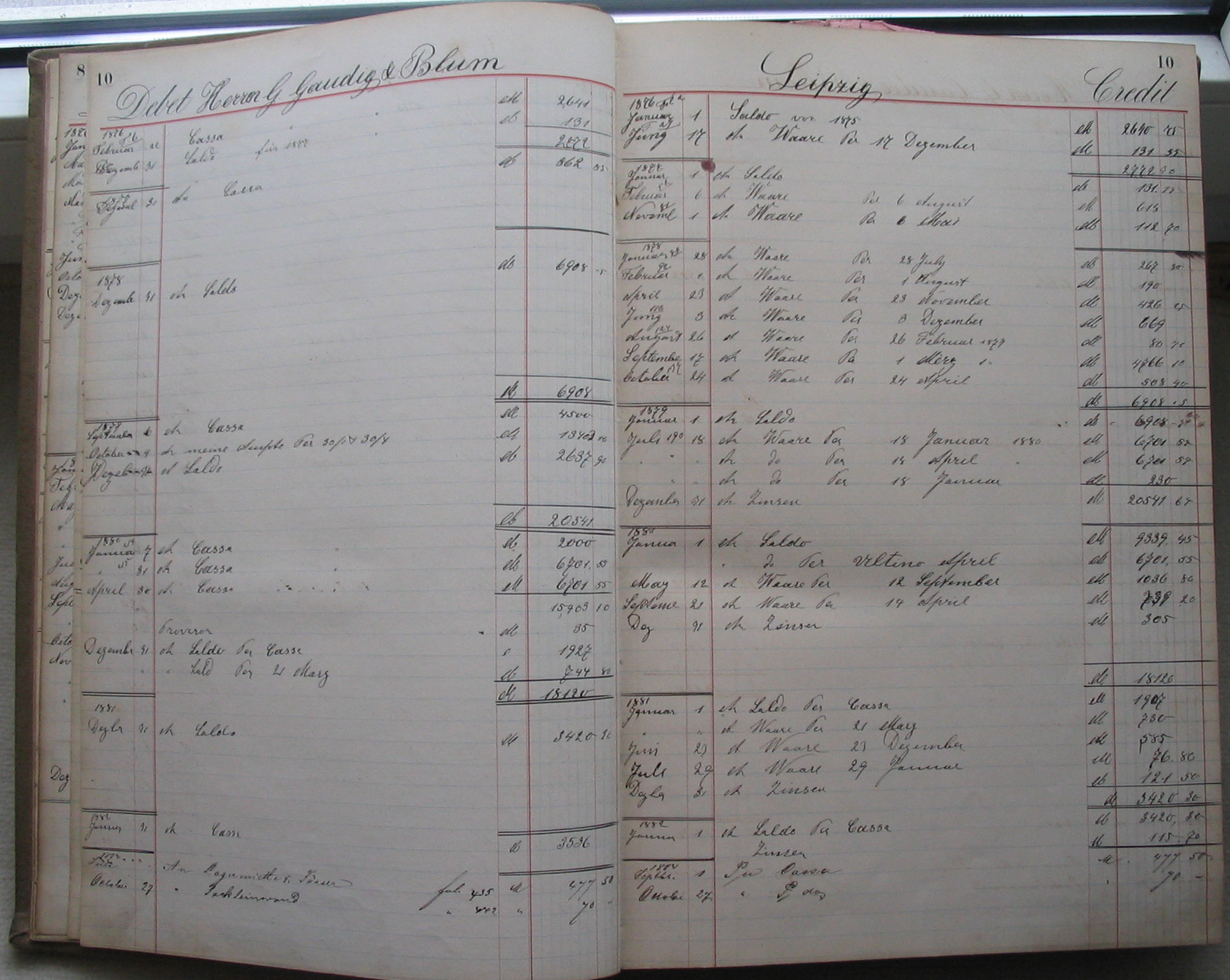 Ledger of a wholesale fur dealer, Germany, Leipzig